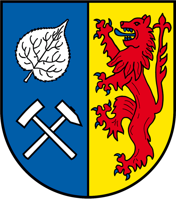 Coat of arms of Lindenschied